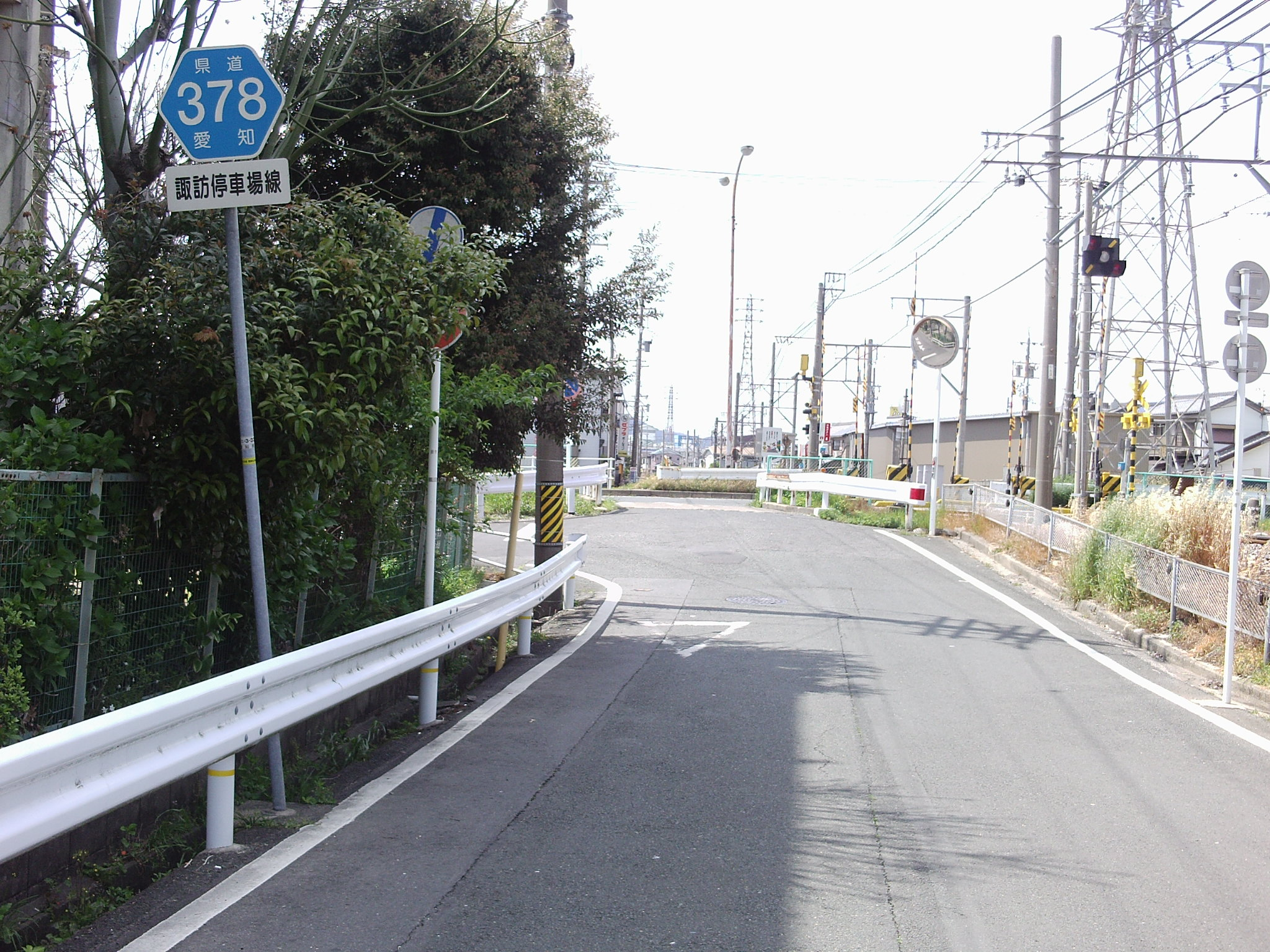 Aichi prefectural road No.378 in Suwa 4-chome, Toyokawa, Aichi.